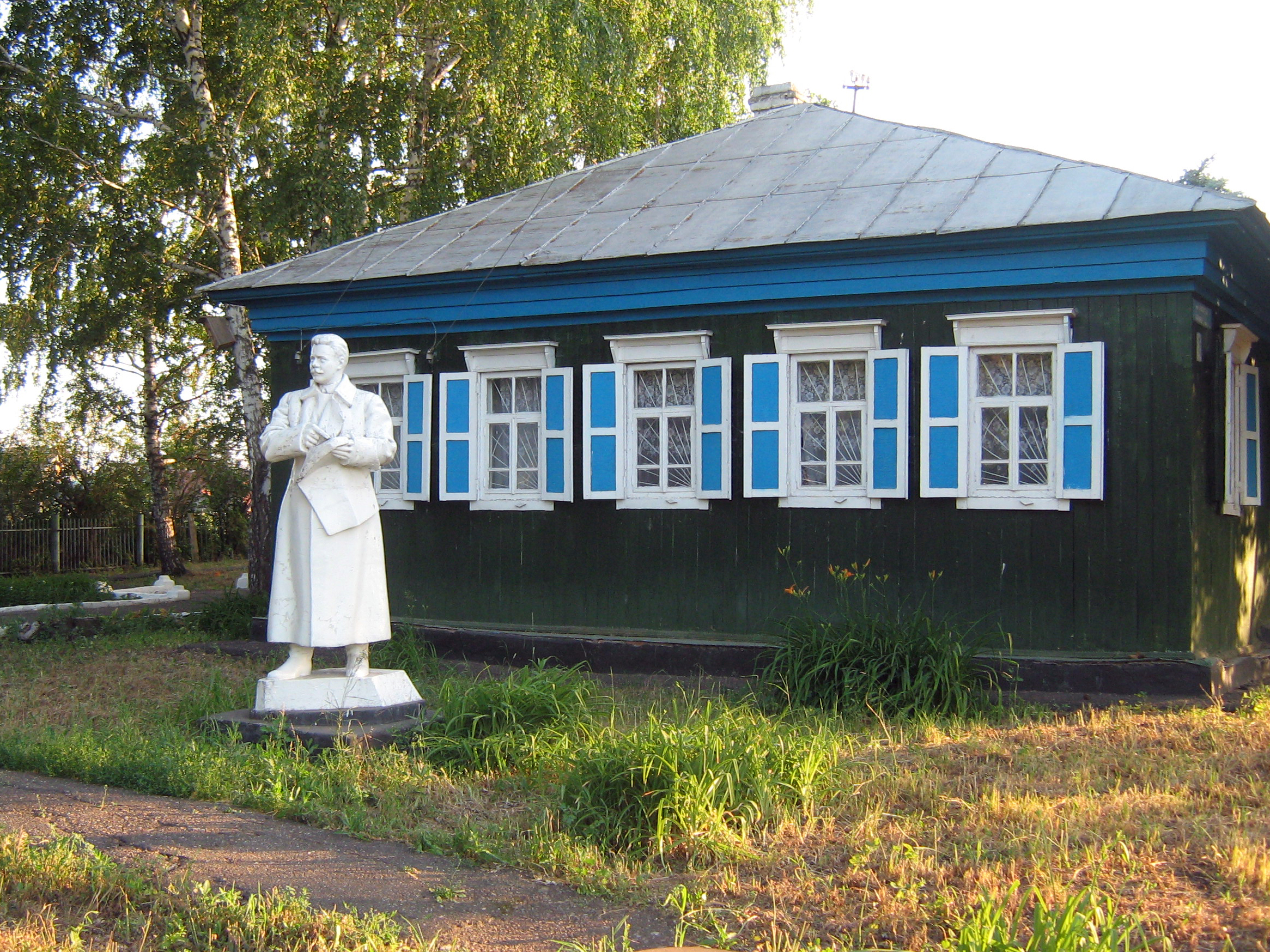 Museum of 25th Rifle Division in Krasniy Yar, Ufa